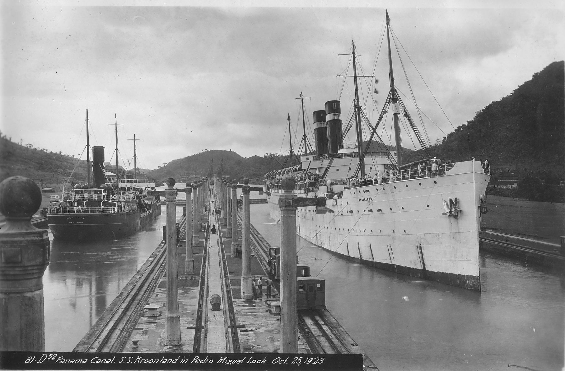 The Panama Pacific Line steamer SS Kroonland passes through the Pedro Miguel Lock of the Panama Canal on 25 October 1923. This was Kroonland's her first voyage on this route, and first canal transit, since 1915. American modernist poet Wallace Stevens and American baseball shortstop Ray French were both on Kroonland during this voyage.